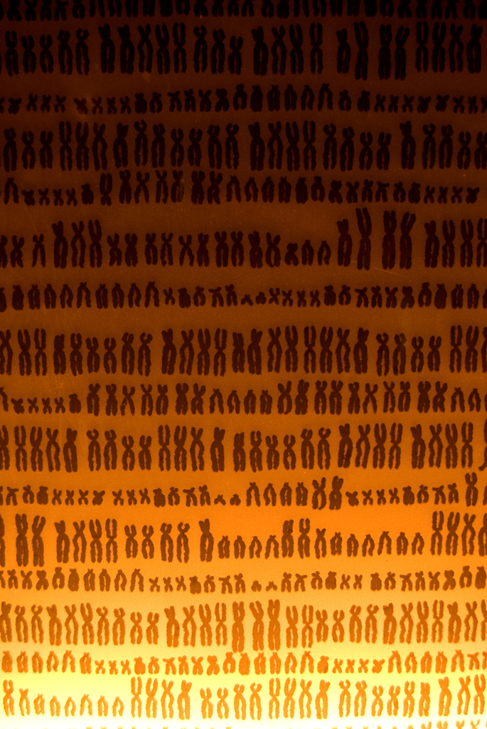 A view of rows of chromosomes taken at the science museum in South Kensington, London.